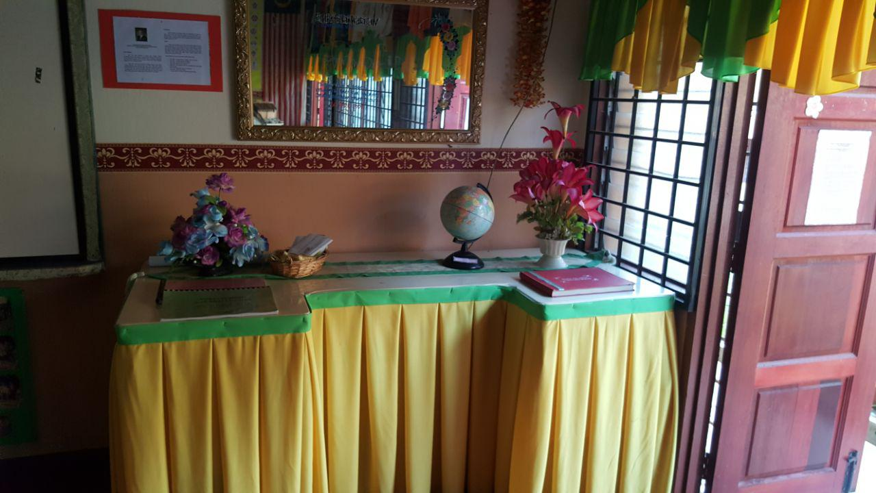 sudut galeri